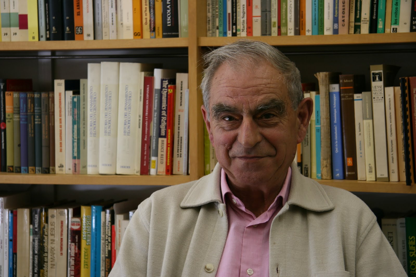 Joan Estruch Gibert